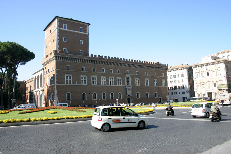 Author: Matteo Corti, 2005